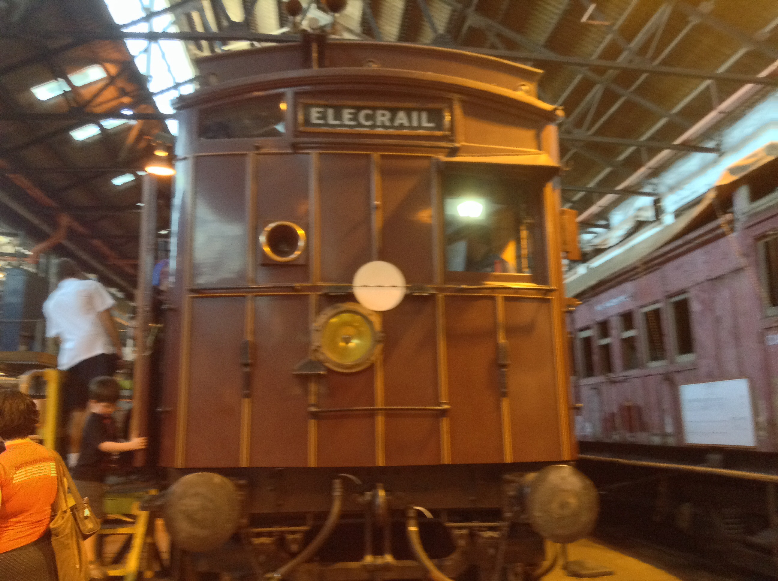 A swing door at Newport Workshops.